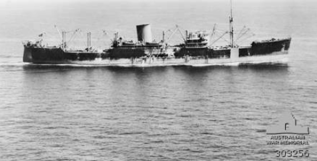 23 August 1941. Aerial starboard side view of the UK refrigerated cargo motor ship Empire Star. Note the defensive armament consisting of a 4 inch gun right aft with a 12-pounder anti-aircraft gun sited above it. Empire Star was part of the first trans-Tasman convoy, VK 1, in December 1940 and took part in the evacuation of Singapore and Java in February 1942.